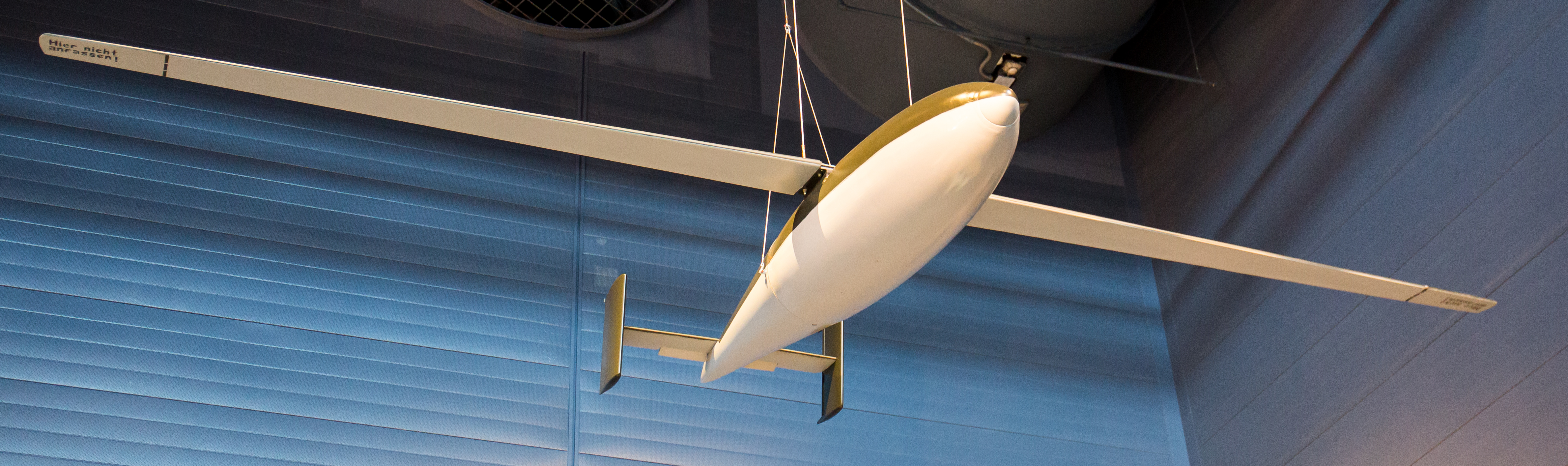 A Bv 246B Hagelkom guided bomb on display at the Udvar-Hazy Center.